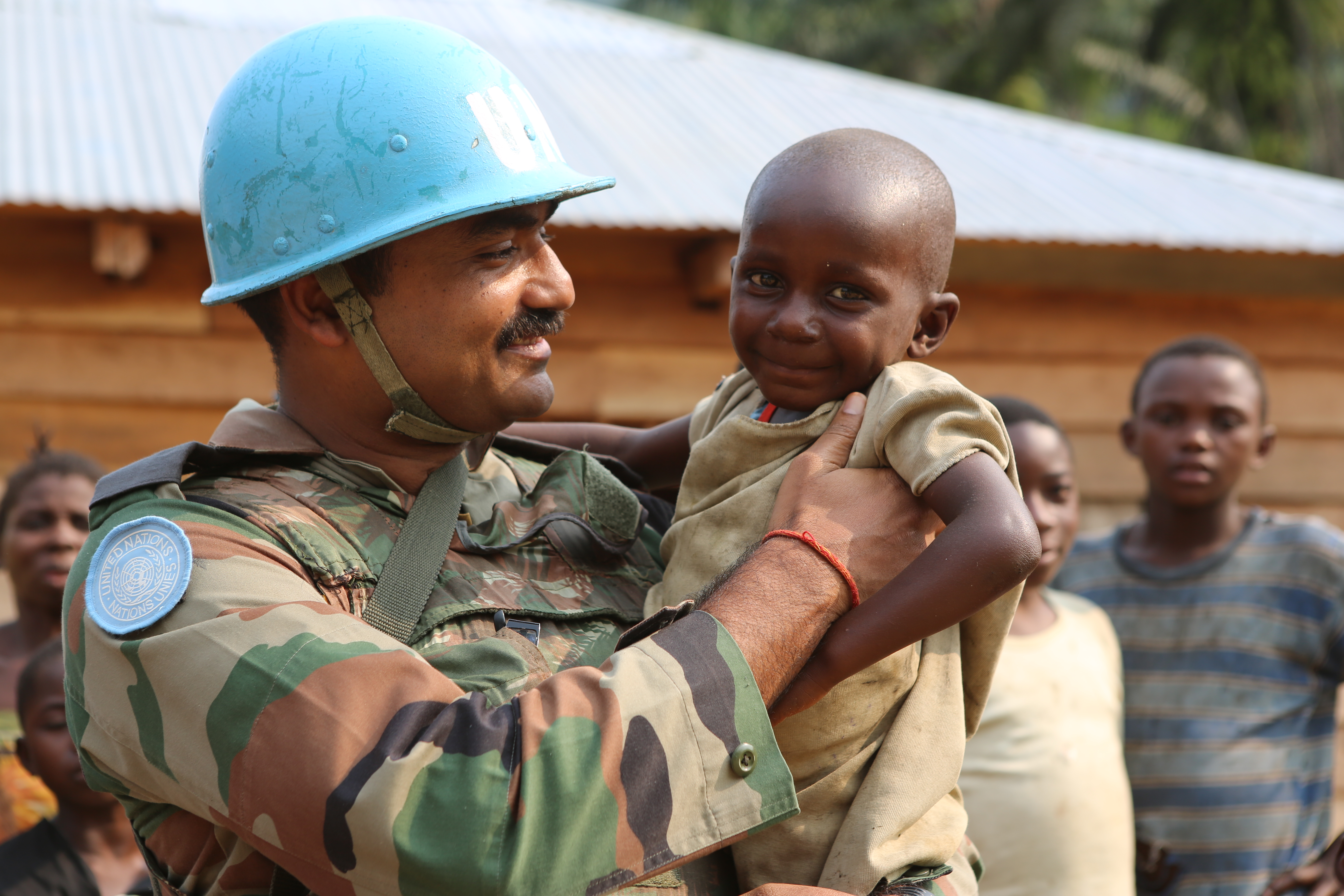 2013-07-16-19th-DRC Goma North Kivu (CLA) Community Liaison Assistants on working environment in Goma city and on the field at Otobora. Photo MONUSCO/ Myriam Asmani